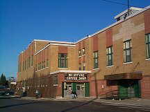 Category:Buildings and structures in Timmins